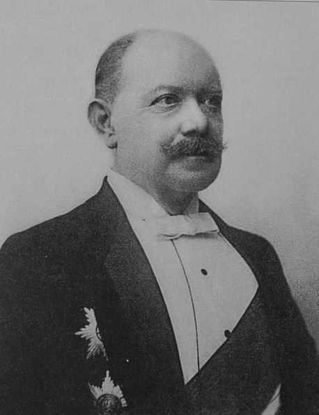 Muraviov Mikhai (1845—1900) - graf, ministr from Russia